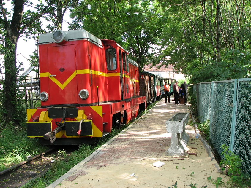 Faur LH45 as PKP class Lxd2